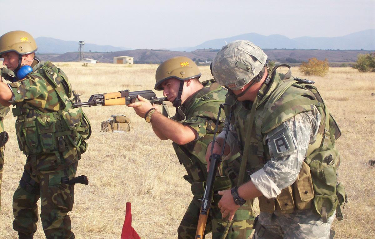 Vermont Guard trains Macedonia military for peacekeeping missions